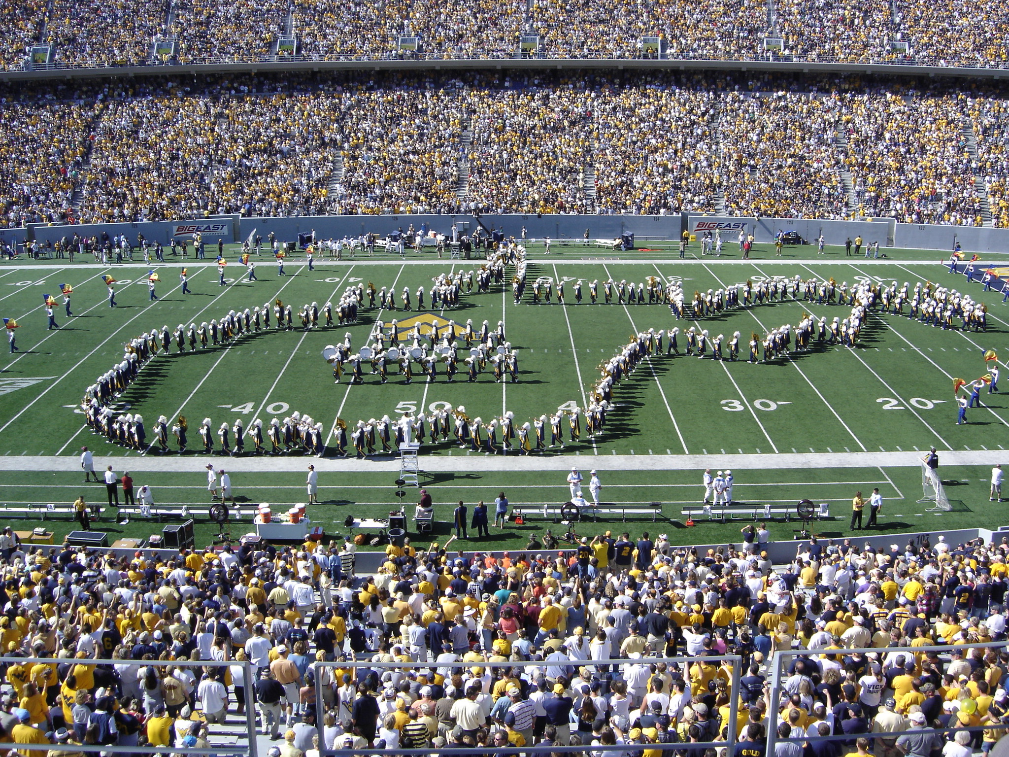 An image of the Mountaineer Marching Band forming the state of WV outline during a pregame performance in 2005 .